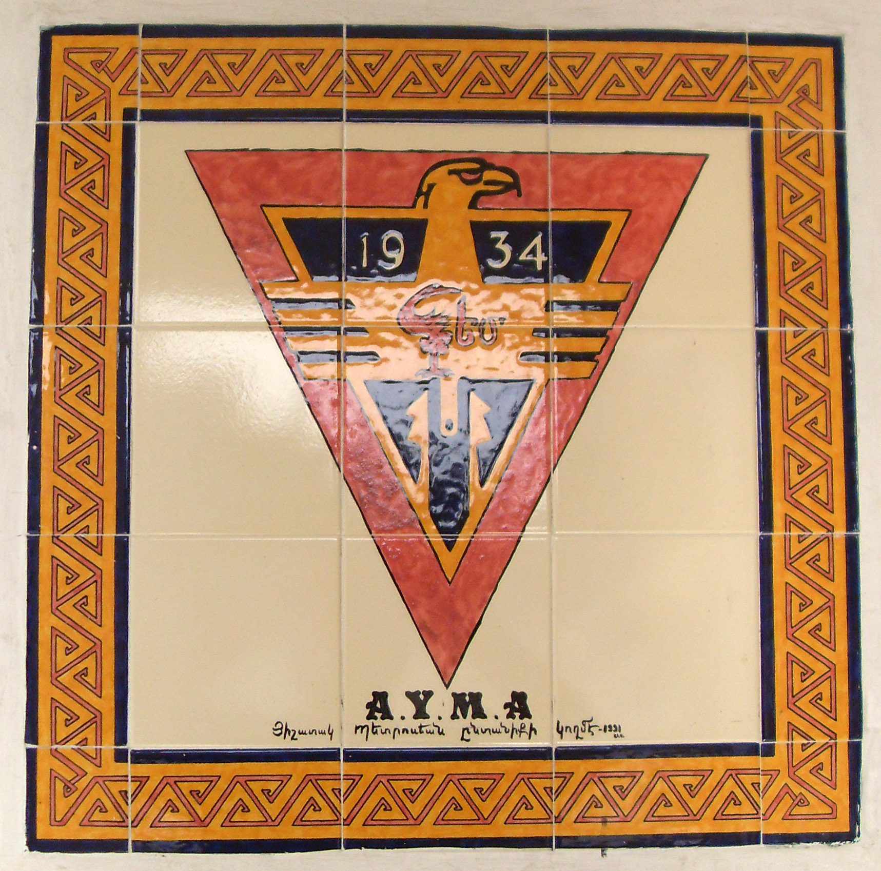 The tile composition on the side of Armenian Young Men's Association's entrance